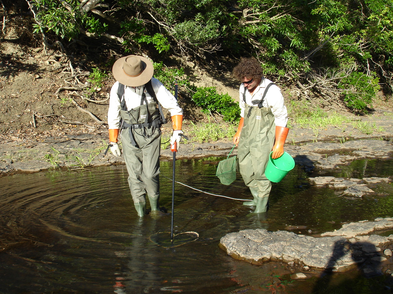 Electro-fishing for tilapia survey